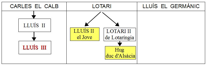 Opponents of Louis III, King of the Franks